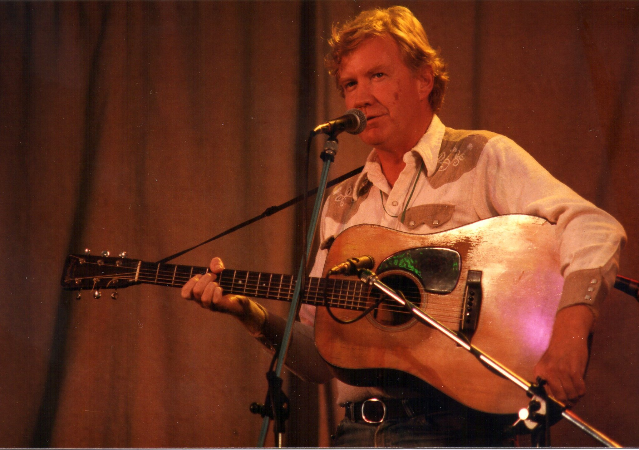 Jim Rooney, bluegrass musician on stage at the Cambridge Folk Festival, July 1985 (photograph by Tony Rees)